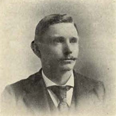 David A. Brodie pictured The Chinook, 1899, annual yearbook for Washington State University